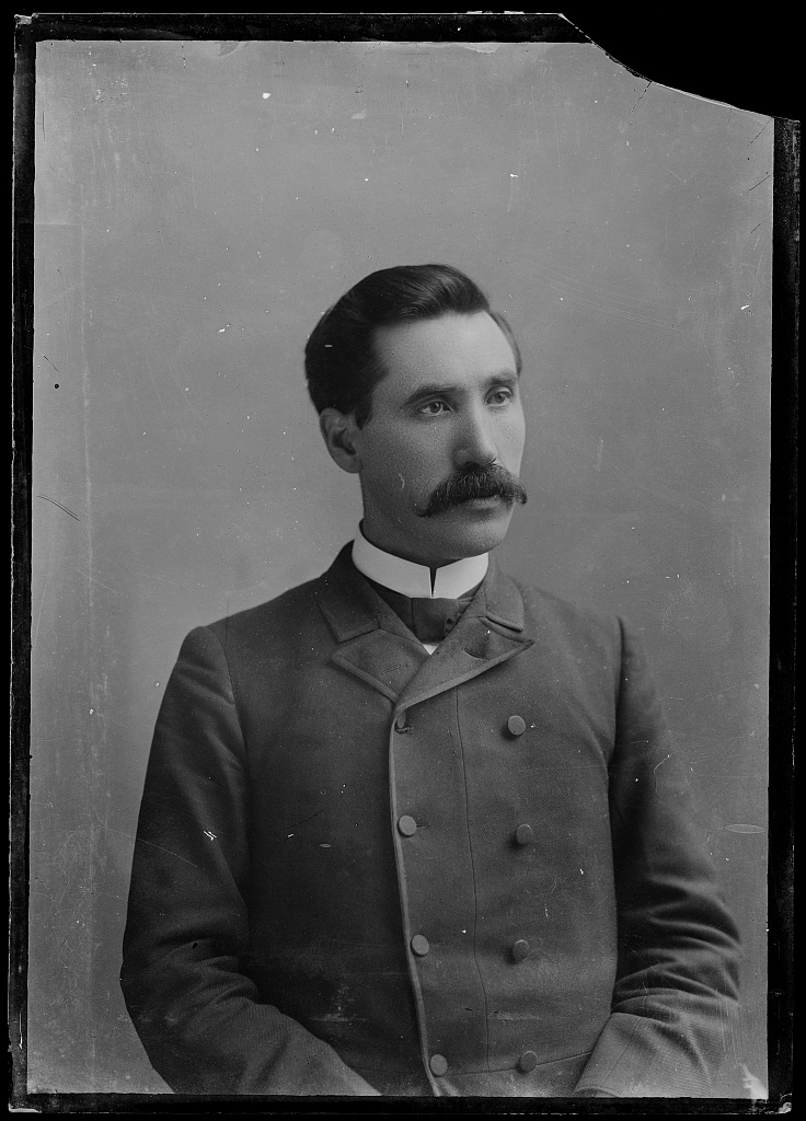 William T. Crawford photographed by C. M. Bell